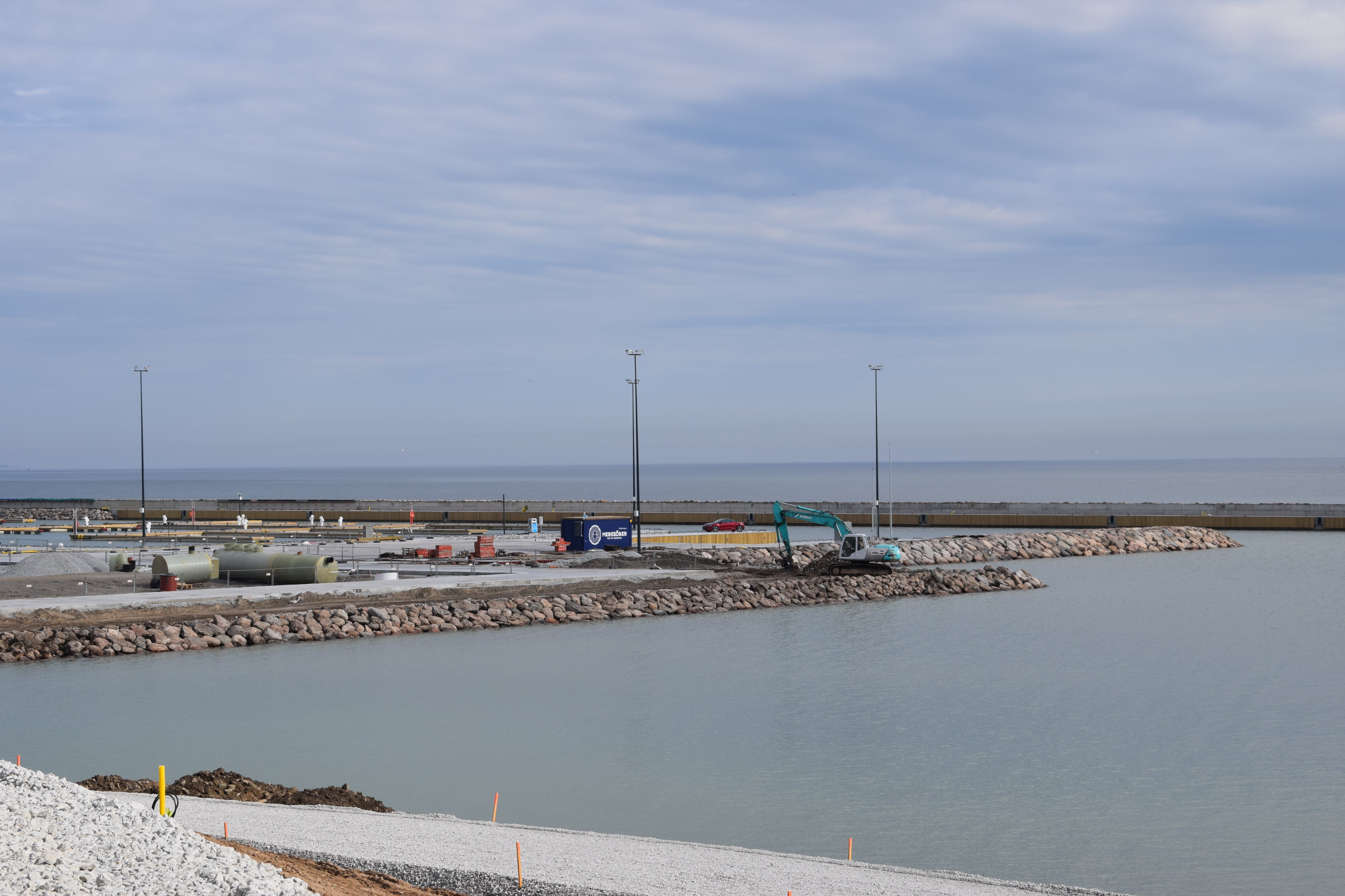 Haven Kakumäe